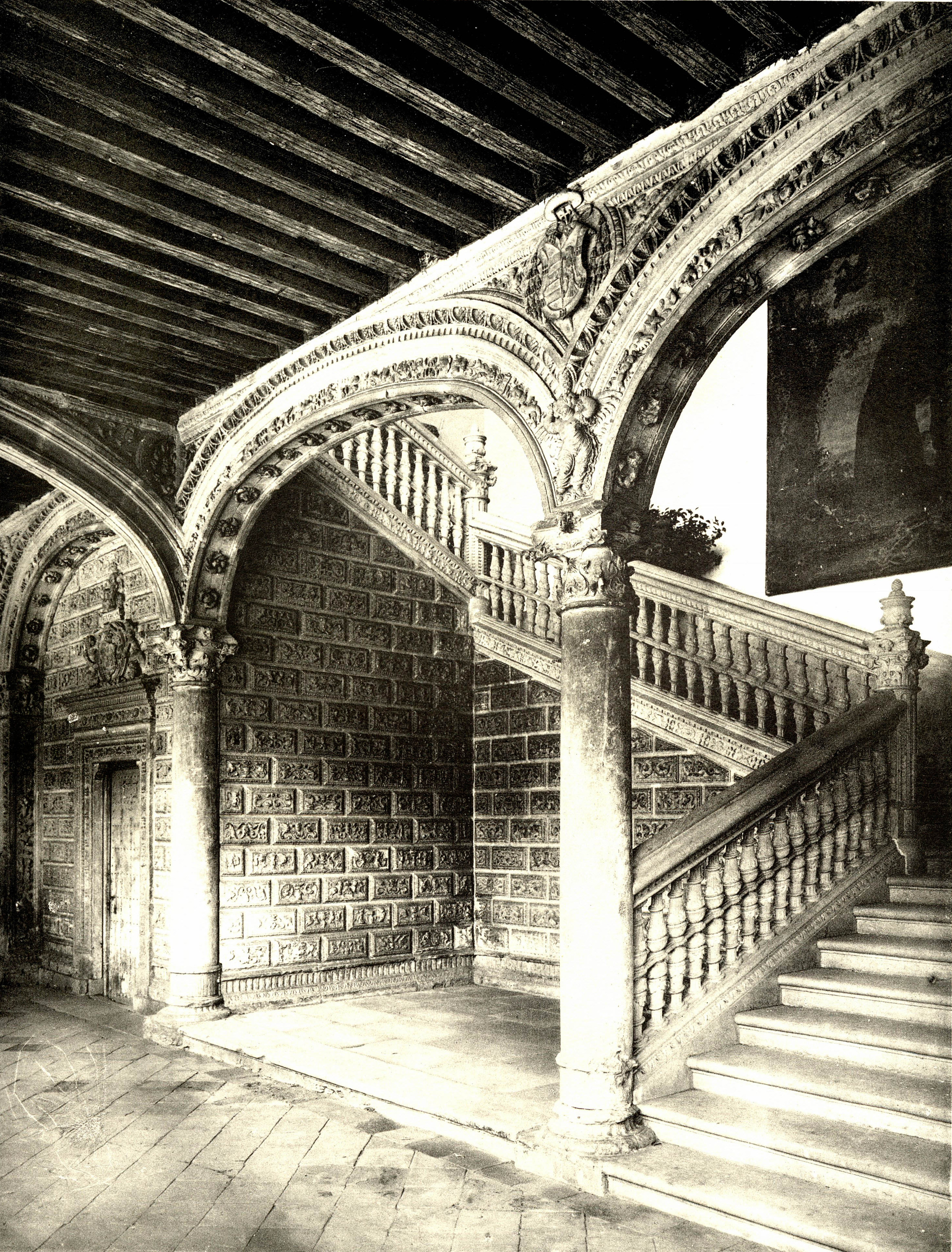 Constantin Uhde. Baudenkmäler in Spanien und Portugal. Aufnahmen einer Reise 1888-1889. Berlin: Verlag von Ernst Wasmuth; 1892. Scanprojekt Bundesdenkmalamt Österreich This scan or this PDF-file was created within the Austrian Wikipedia-project Denkmalpflege Österreich (German only) supported by Wikimedia Germany and Wikimedia Austria as part of the Wikipedia community-project to collect public domain documents from the library of the Heritage Monuments Board of Austria. This document describes or depicts an object which is in various countries. Texts are written in German language. Send requests for uncompressed scans to Hubertl. This work is in the public domain in its country of origin and other countries and areas where the copyright term is the author's life plus 100 years or less. You must also include a United States public domain tag to indicate why this work is in the public domain in the United States. This file has been identified as being free of known restrictions under copyright law, including all related and neighboring rights.